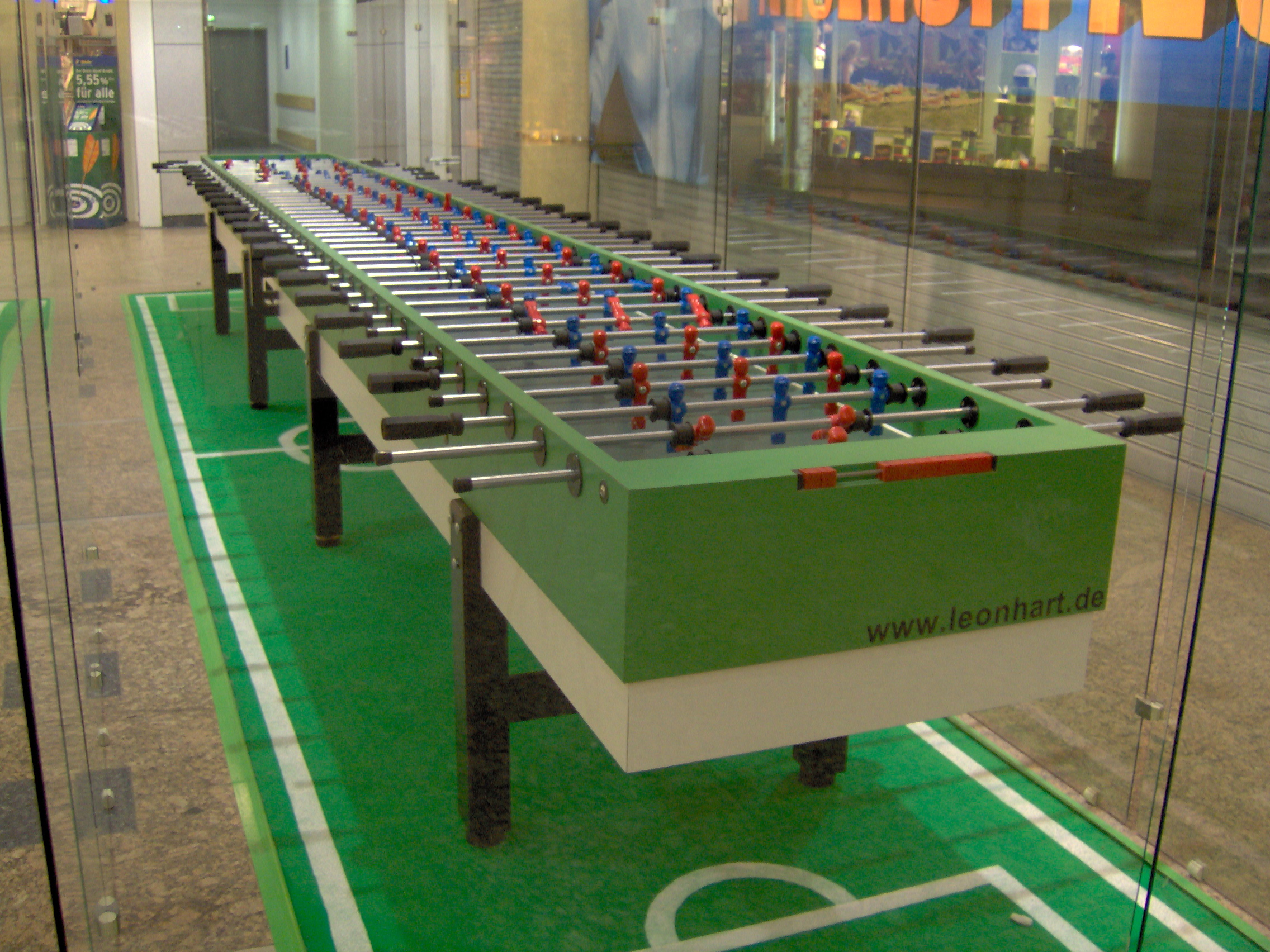 An 11-a-side table football game in Berlin. Self taken, 2006.